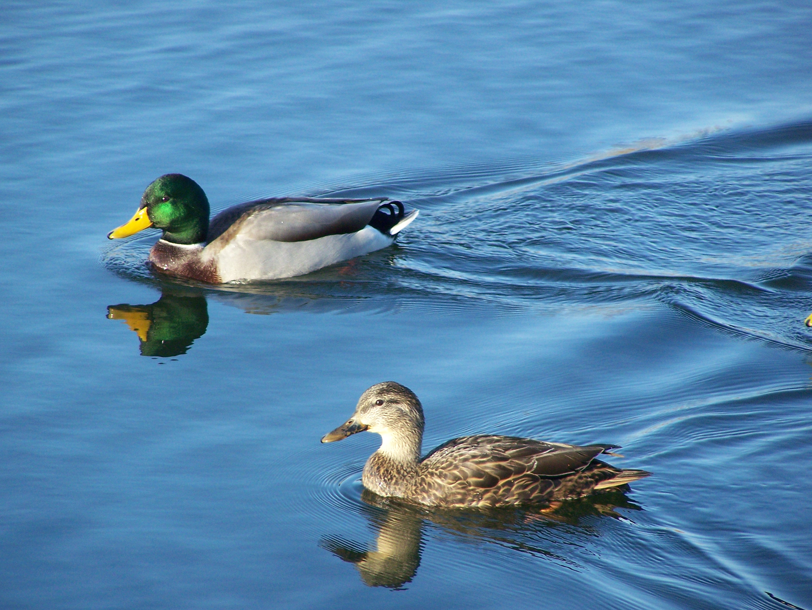 Anas platyrhynchos (Mallard duck) mixed pair swimming.